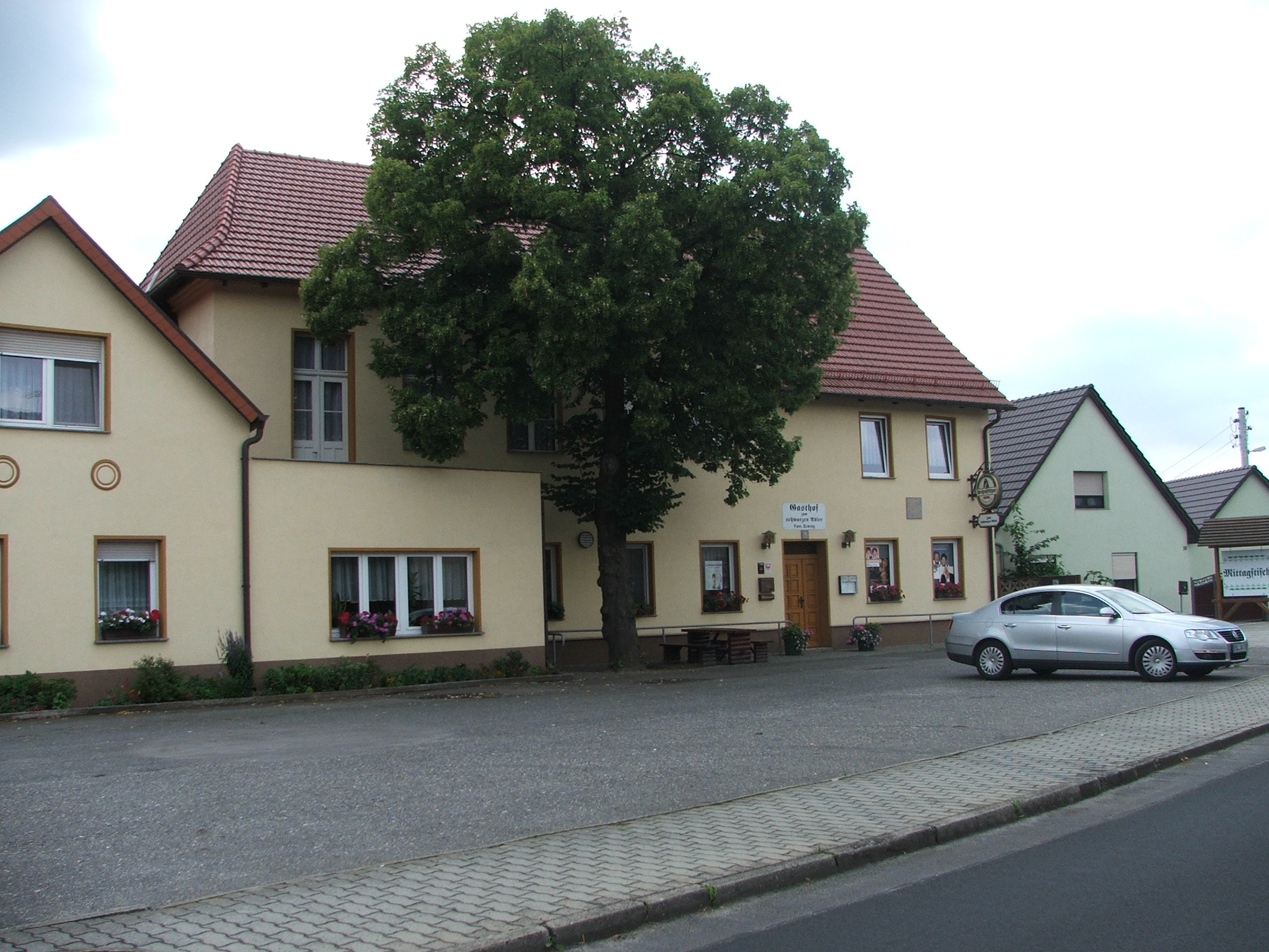 Gasthof in Rothstein